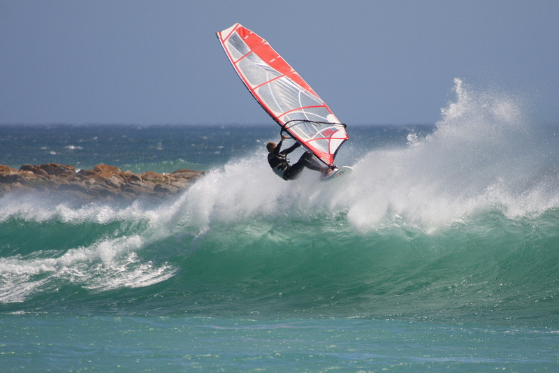 Krisjanis Tutans Sailing